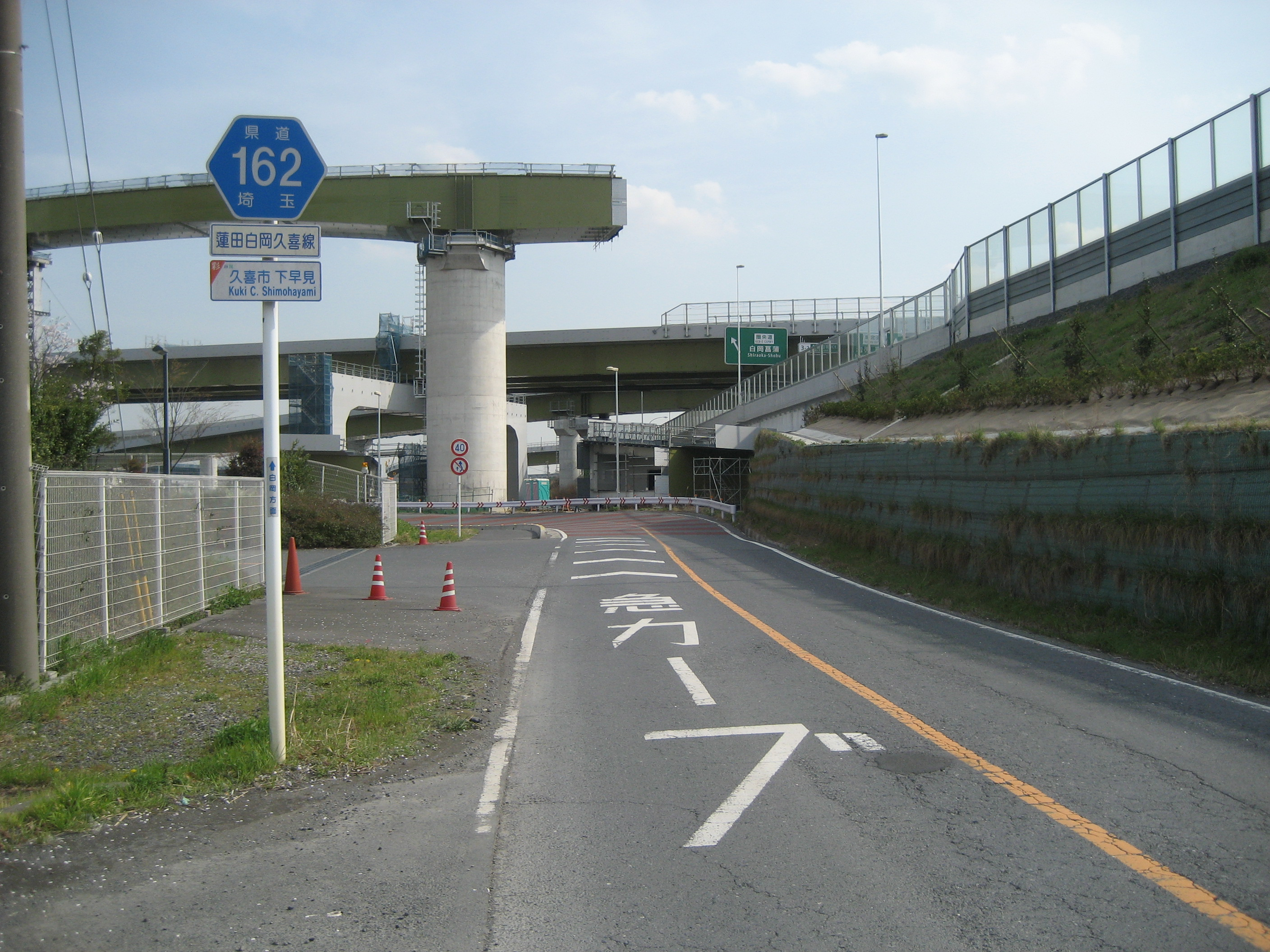 The Saitama Prefectural Road Route 162 under the Kuki Shiraoka Junction